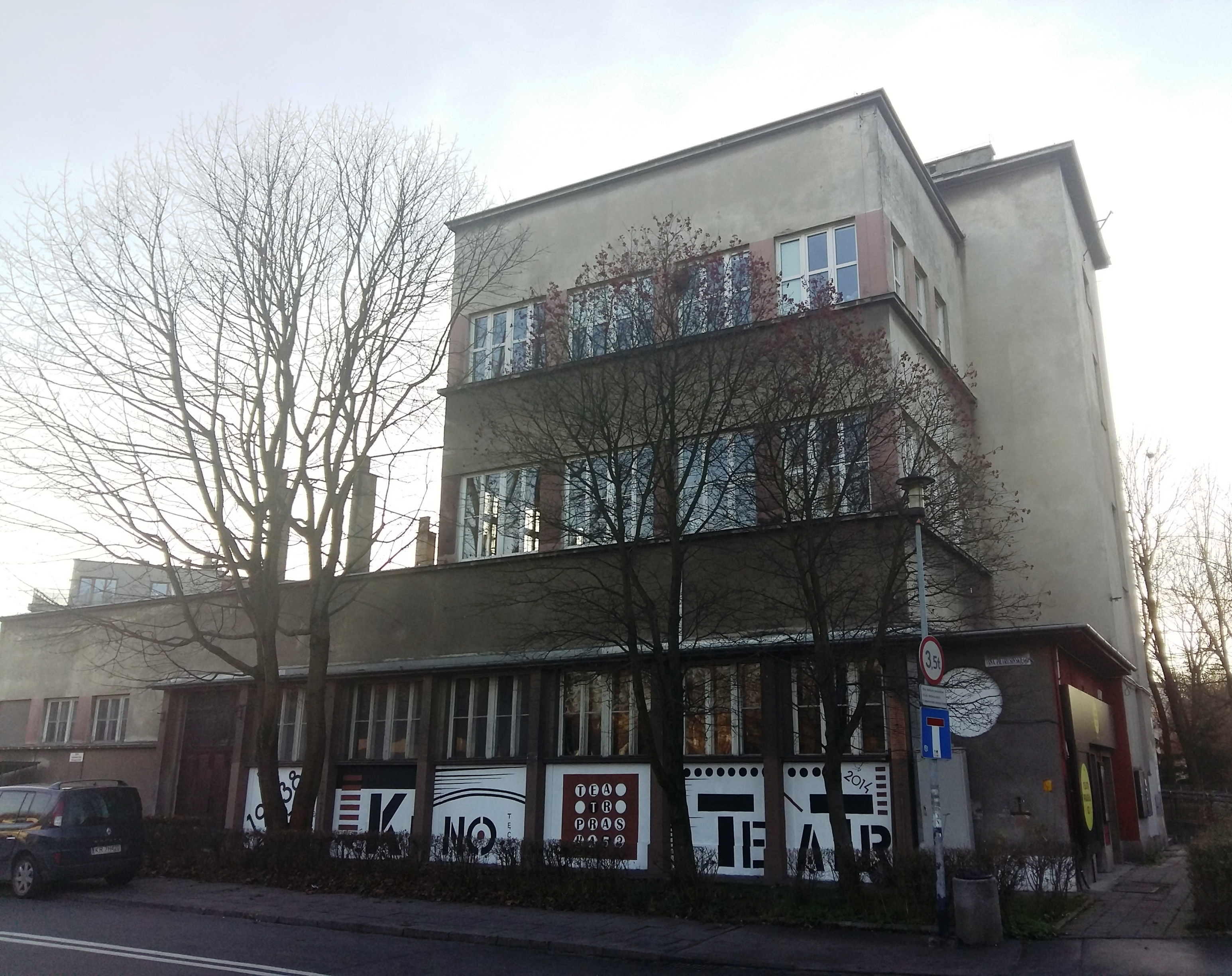 Rainbow Cultural Centre (former Social House), Workers' Housing Estate, Krakow, 52 Praska street